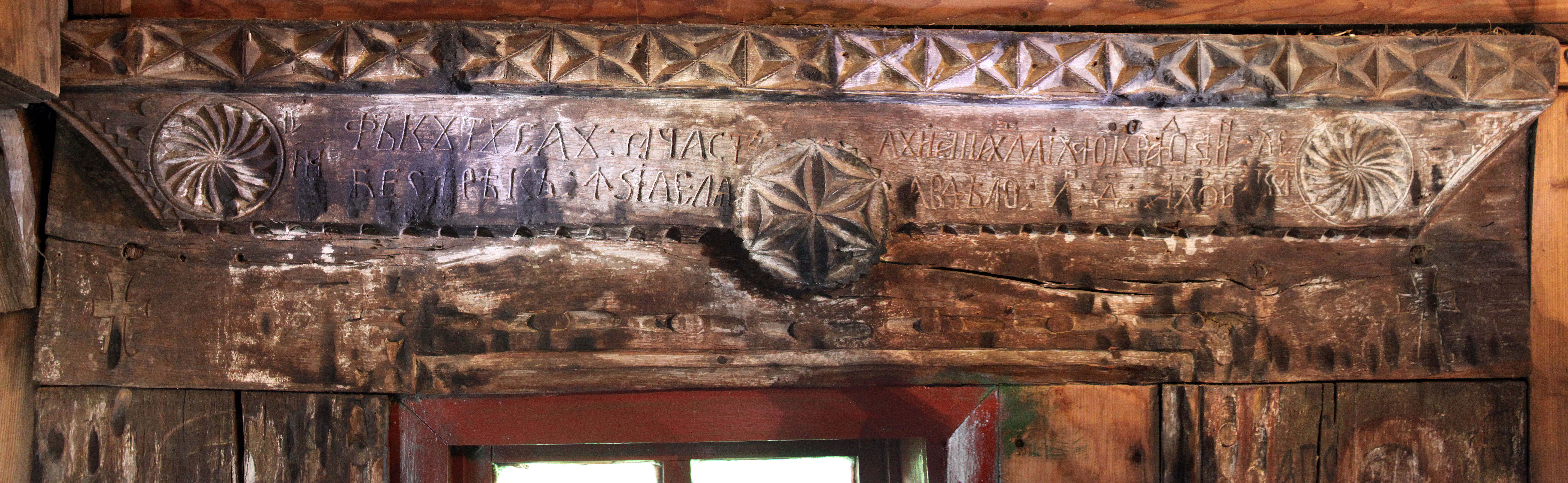 Bacea, Hunedoara county, Romania: the wooden church, the inscription on the portal from the entrance.